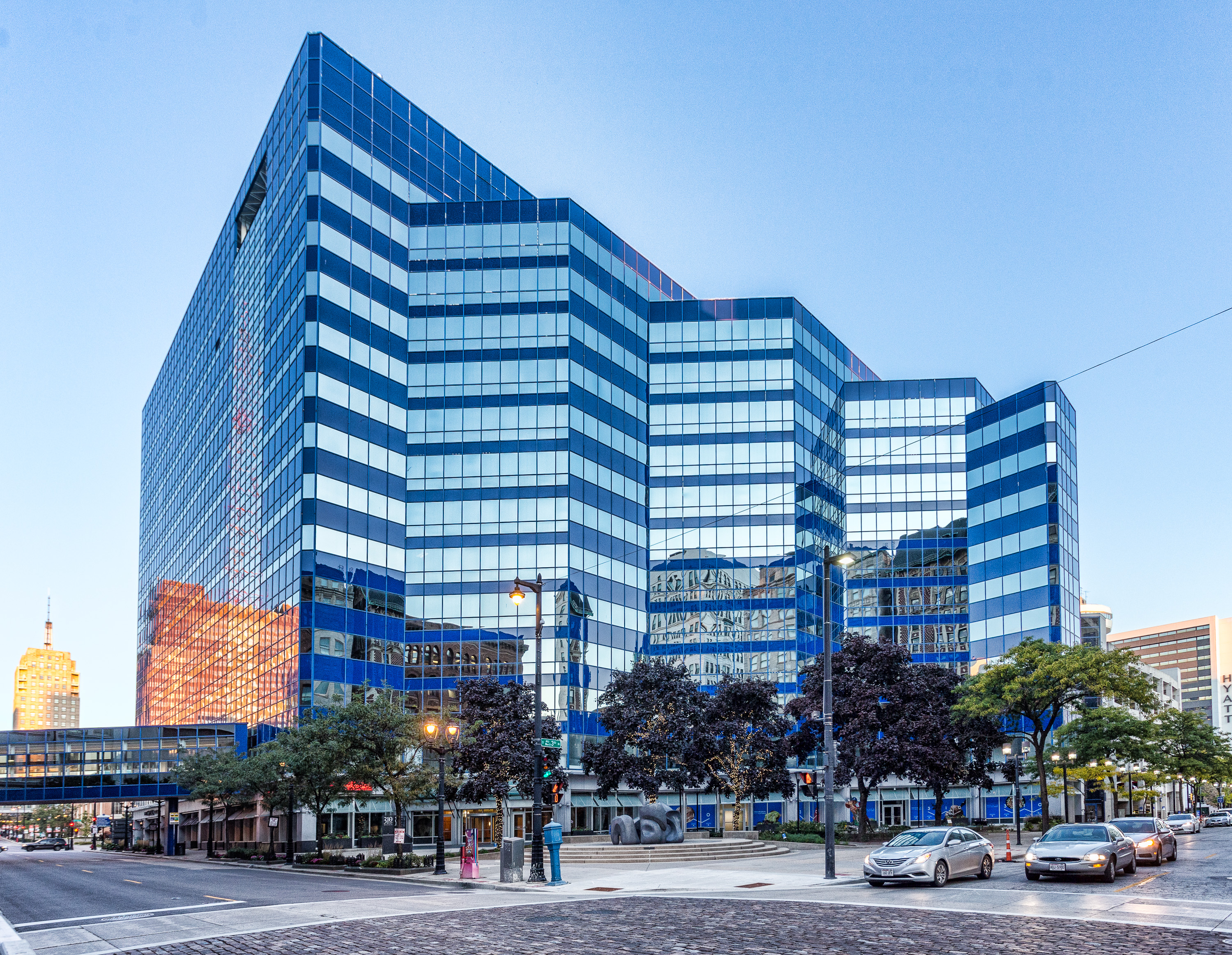 310W, formerly called the Henry S. Reuss Federal Plaza at Third Street and Wisconsin Avenue, Milwaukee, aka "blue building"